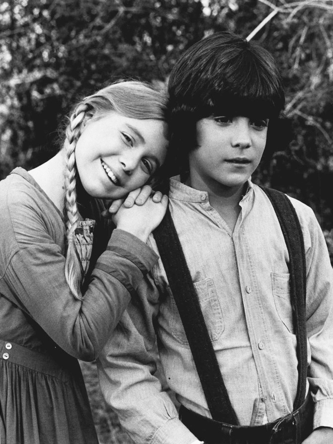 Publicity photo of American child actors, Matthew Laborteaux and Katy Kurtzman promoting their roles as young Charles and Caroline Ingalls on the episode of the NBC television series Little House on the Prairie entitled "I Remember, I Remember".